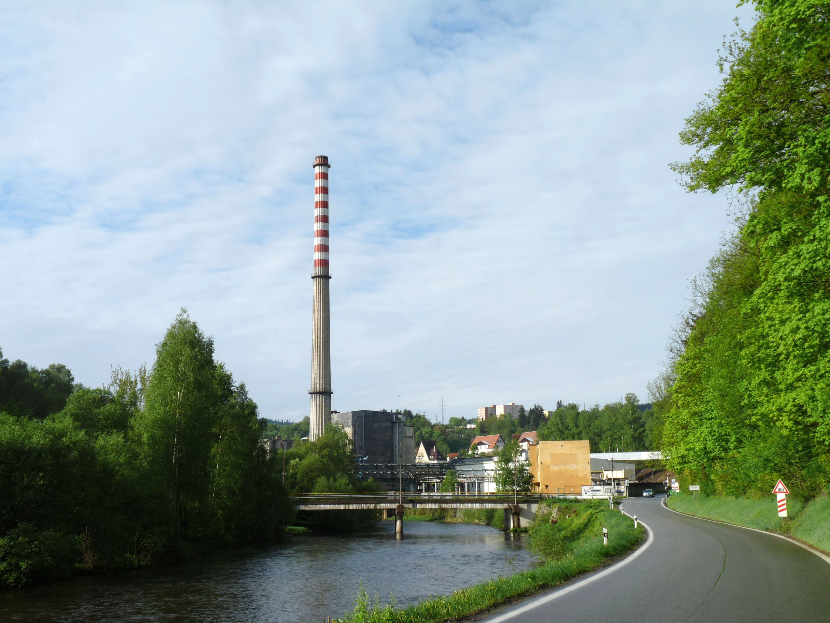 Paper mill in Větřní, Český Krumlov District, South Bohemian Region, Czech Republic.